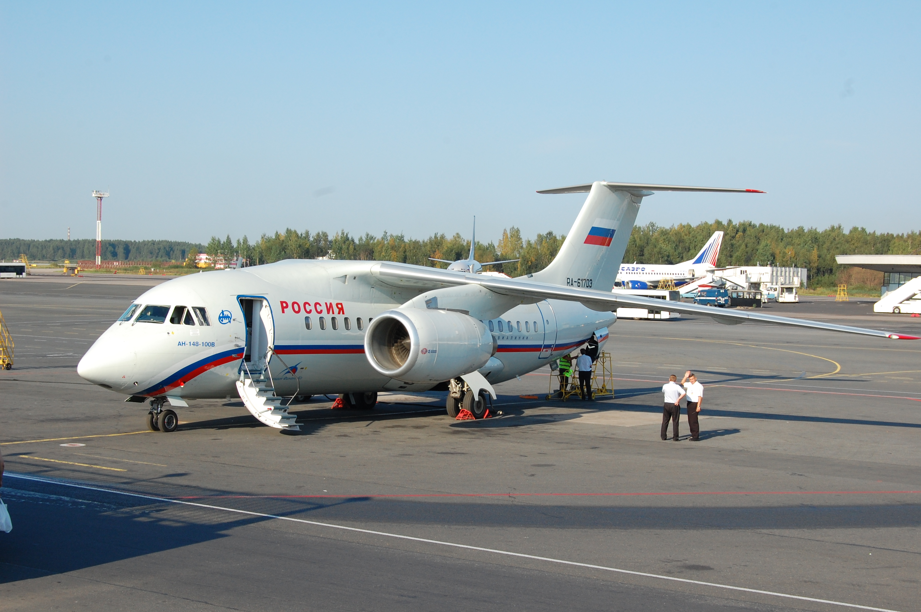 AN-148-100B (RA-61703) at Pulkovo Airport (Saint Petersburg)